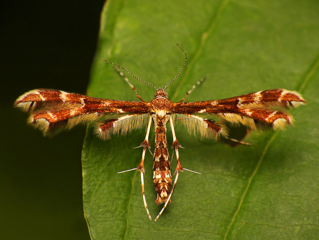 I took this photo last summer. This species of moth was first for me. Before I used to meet other species of Plume Moths, its colour is white and called Pterophorus pentadactylus. But Himmelman's Plume Moth have very beautifull golden brown shade. ;) Please have a view of full size... Thanks :)